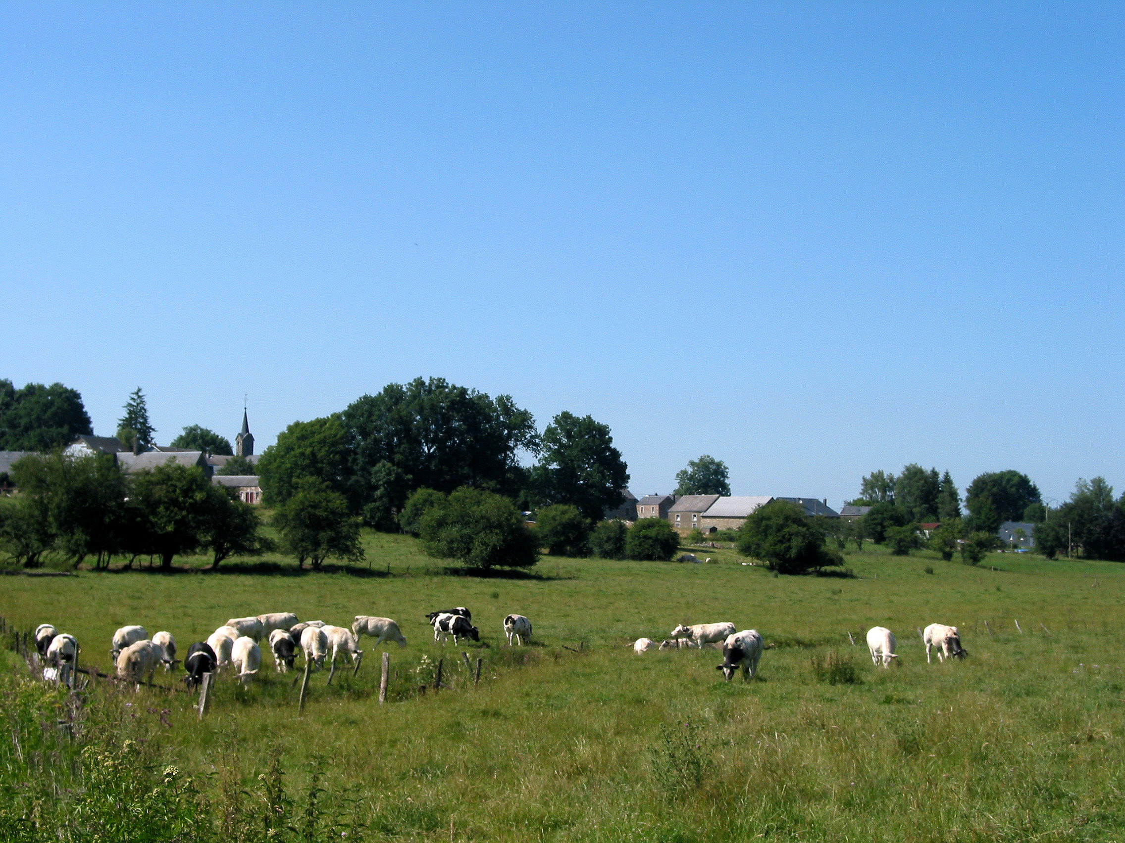 Magerotte (Belgium), the village and its fields.